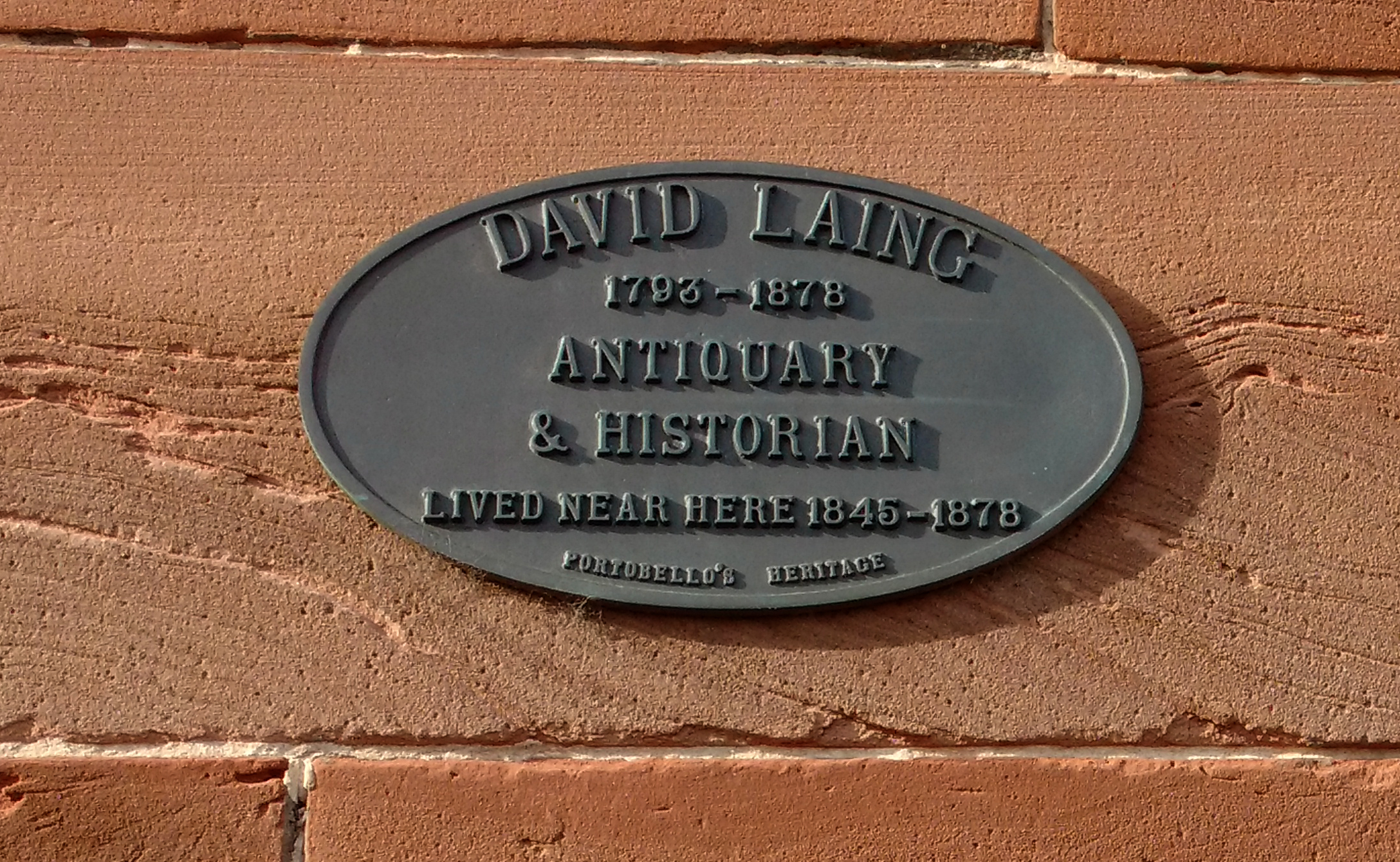 David Laing (antiquary) plaque in Portobello, Scotland